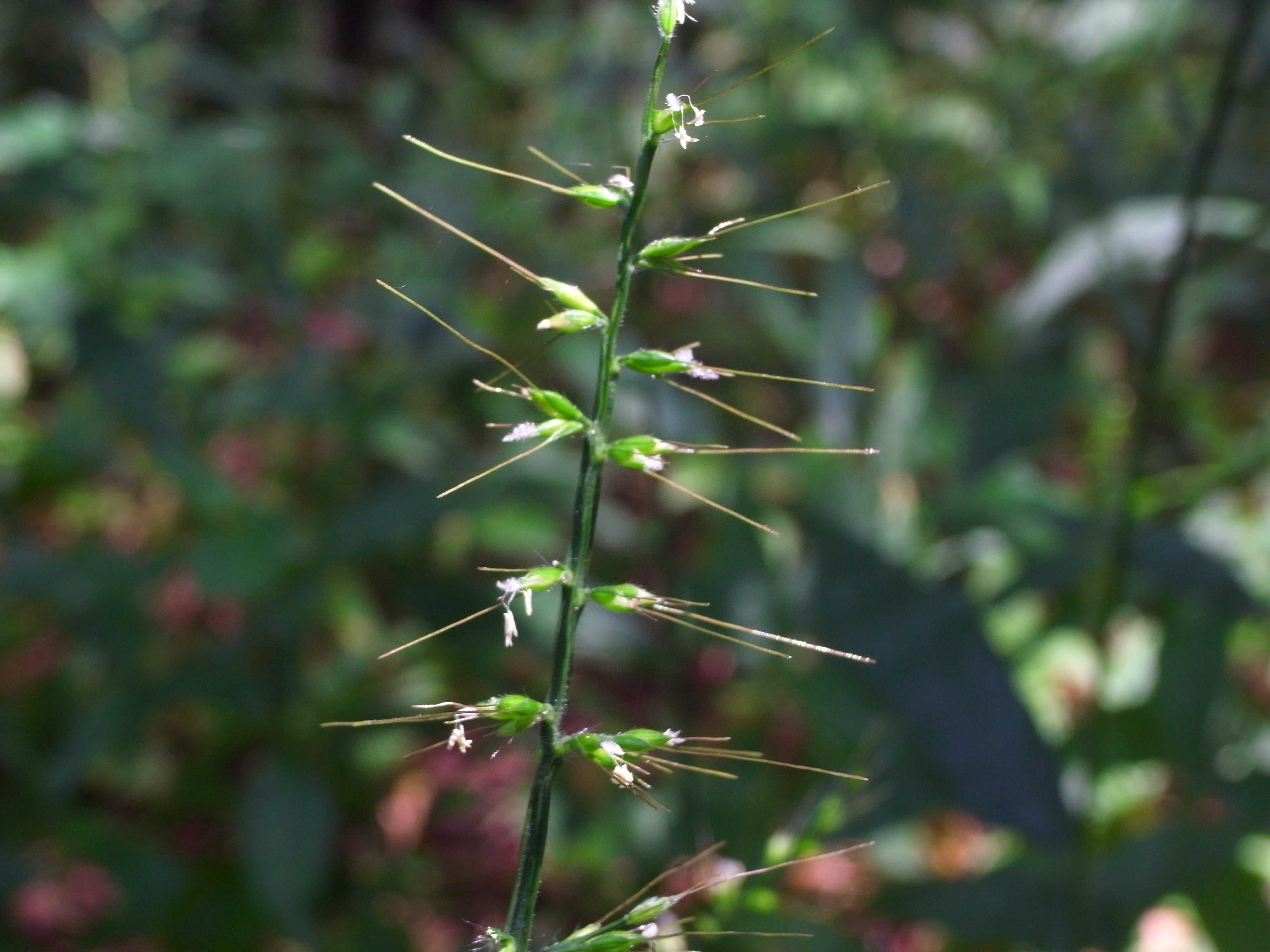 Oplismenus undulatifolius in Ilsan, Korea